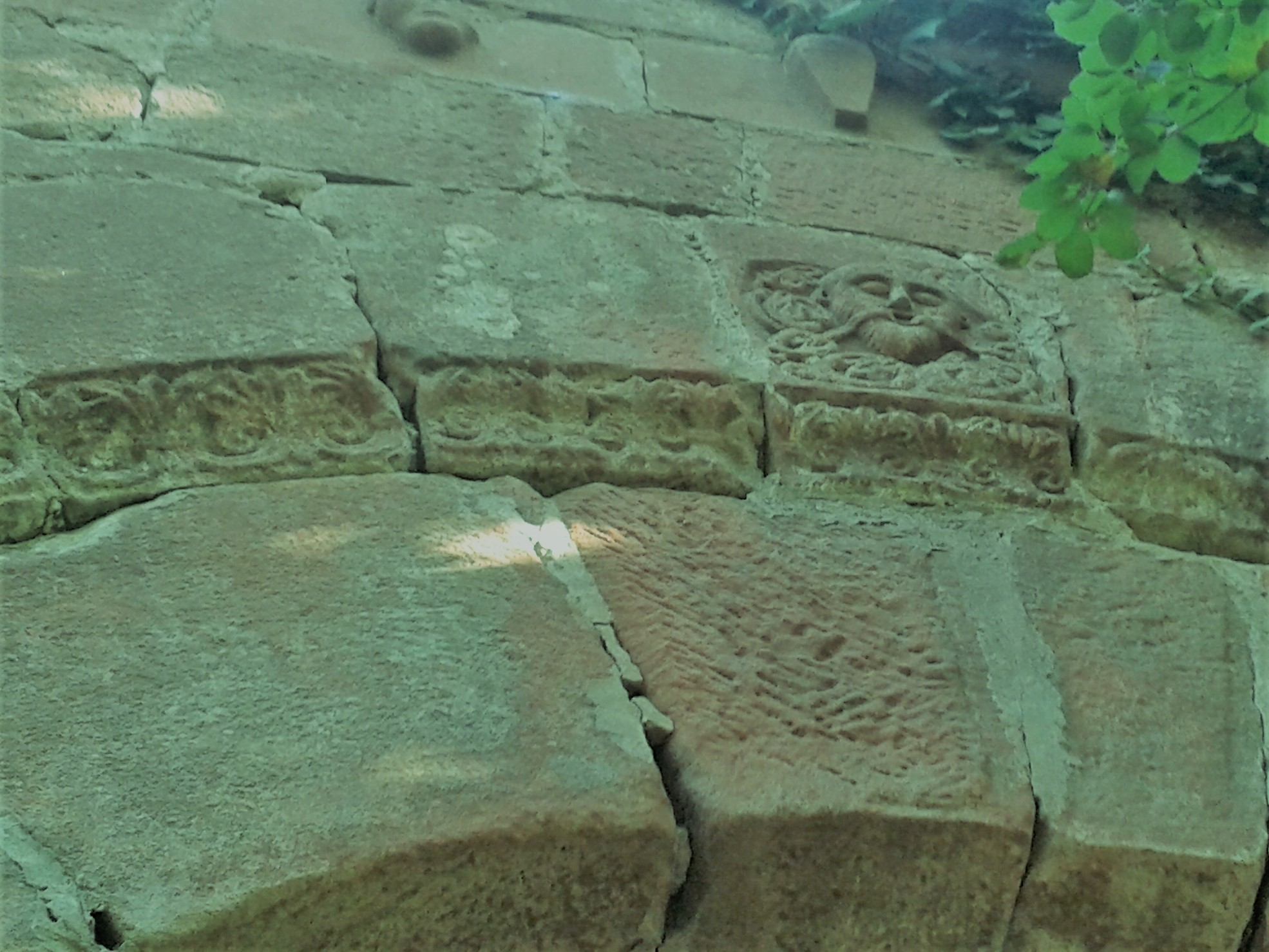 Greenman